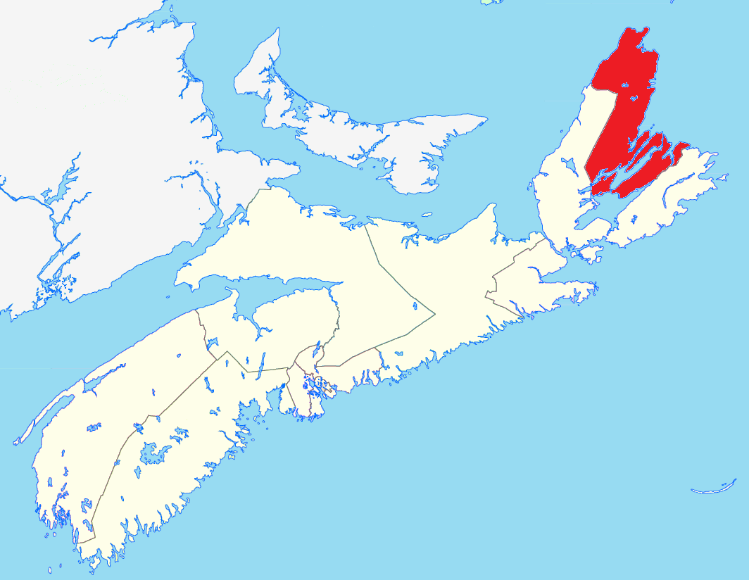 Map of Sydney-Victoria